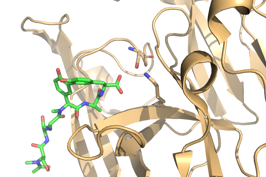 Arylomycin A2 in complex with the E. coli signal peptidase LepB, rendered in PyMOL from PDB entry 3IIQ.